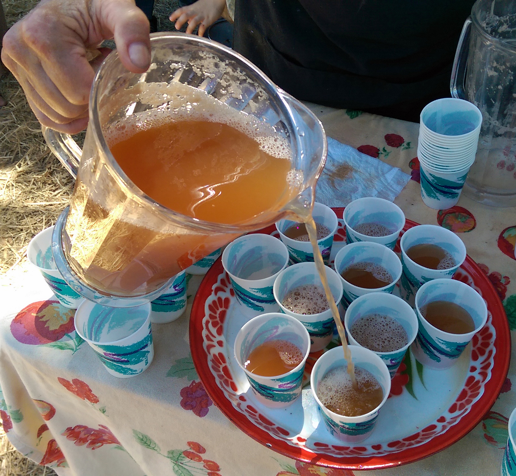 Gravenstein apple cider at the Gravenstein Apple Fair in Sebastopol, California